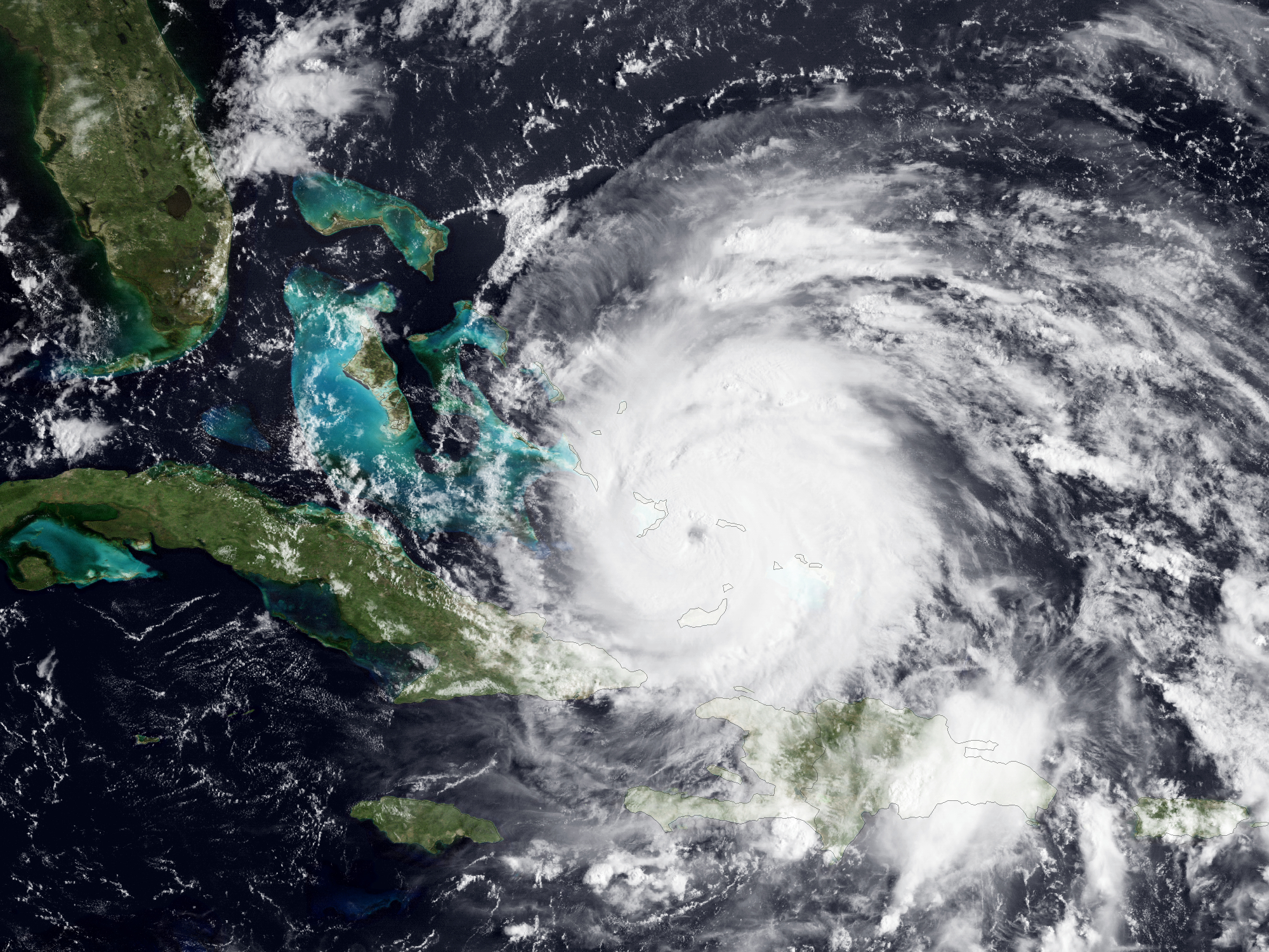 After weakening slightly overnight, Irene’s strength has come back with winds currently measured at 115 mph. The last hurricane hunter reconnaissance mission also measured a central pressure of 966 millibars – a decrease from the previous flight, and further indication of the storms organization and intensification. In fact, an eye can now be seen in satellite imagery. Shown here are colorized infrared and visible images from the GOES-East satellite taken on August 24, 2011 at 1315z. Throughout the day, Irene is predicted to strengthen, with winds of around 125 mph as it continues its projected path along the U.S coastline.